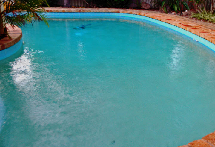 An outside salt water pool.